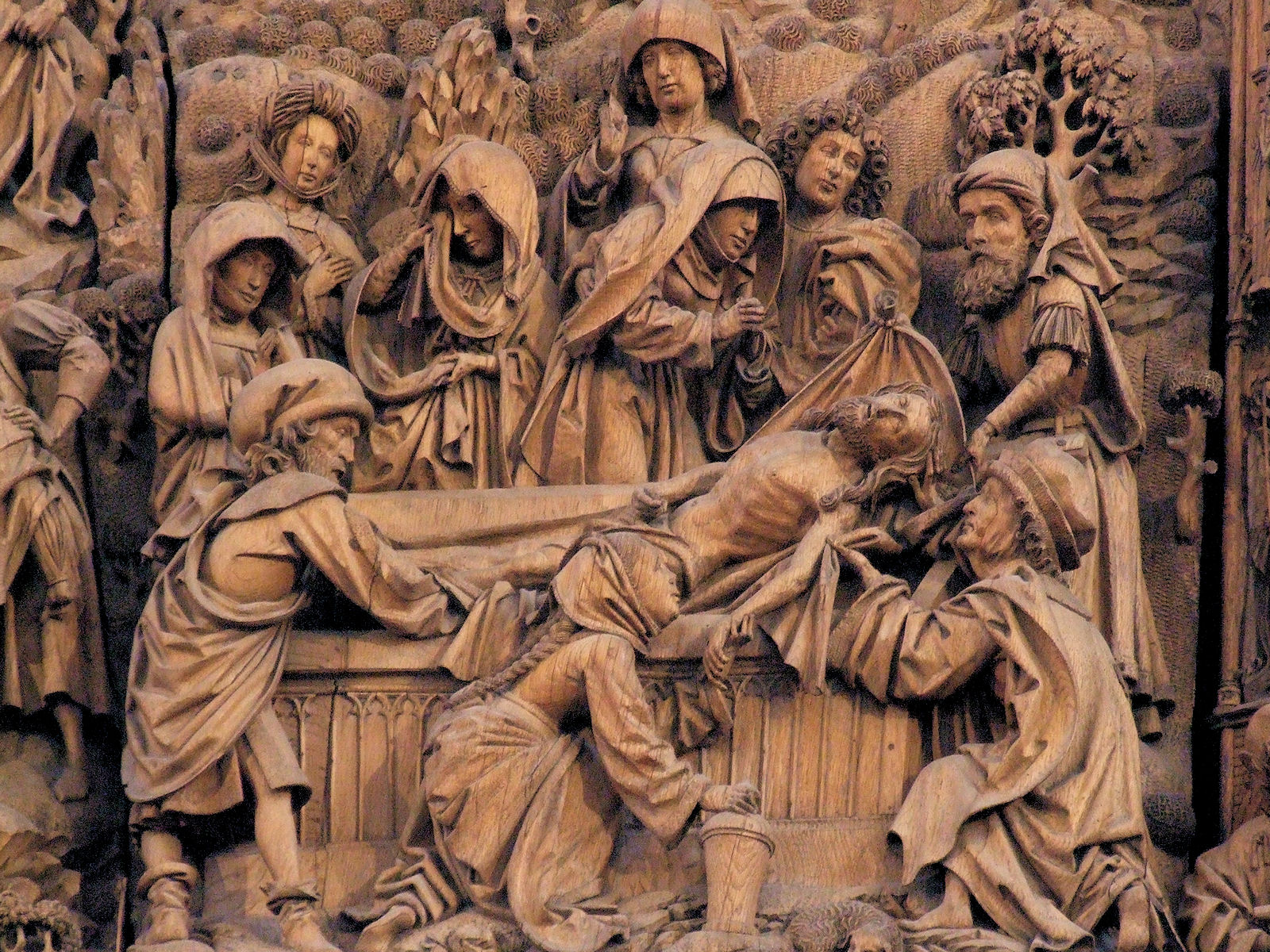 Hochaltar. Sankt Nicolai, Kalkar, Nordrhein-Westfalen High altar - Altars of the Crucifixion of Christ - Detail. Church of Saint Nicholas, Kalkar, in North Rhine-Westphalia, Germany